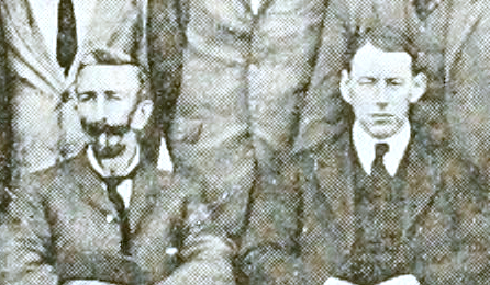 Indian entomologists meeting in 1921, Malcolm Cameron (left) with T.B. Fletcher